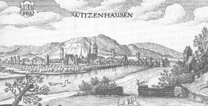 This is a scan of the historical document: Title: Witzenhausen - Topographia Hassiae language: german